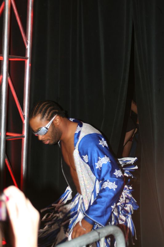 Lethal in 2008. Jay Lethal, competitor in the Six Man Tag Team match to open the show.